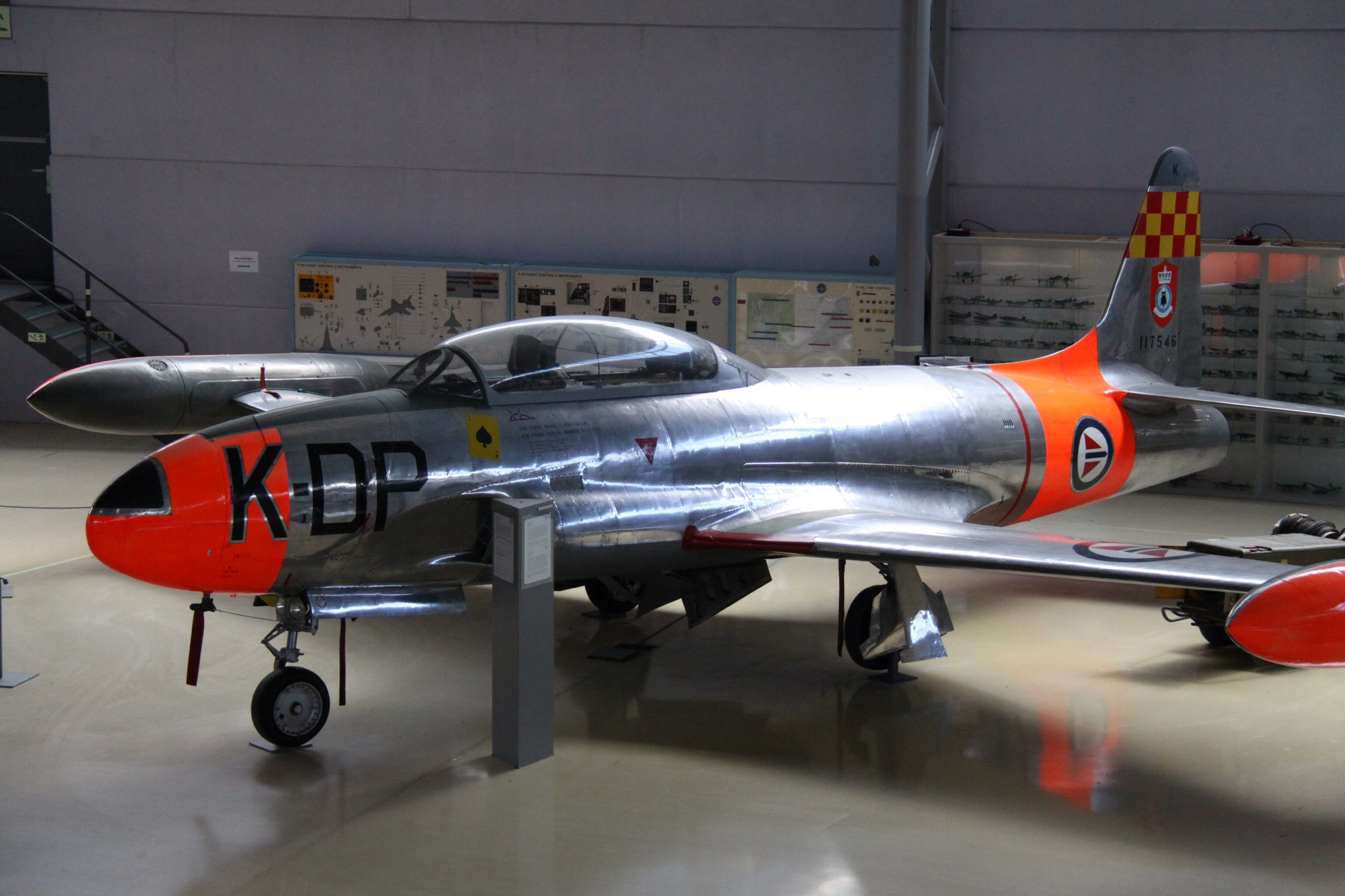 At Oslo Gardermoen